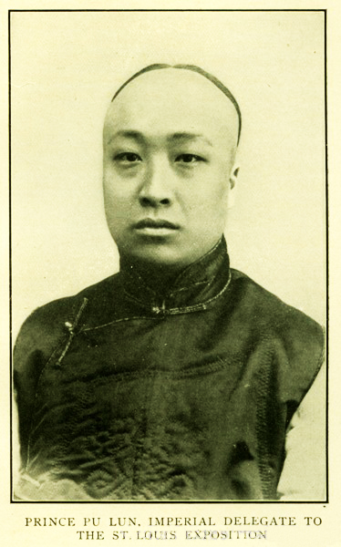 Pulun (1874-1927)